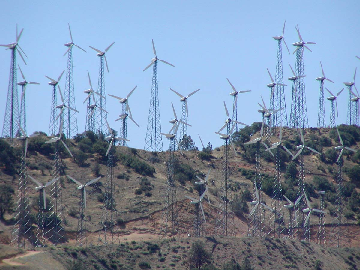 Photo of wind farm in the Tehachapi Mountains of California